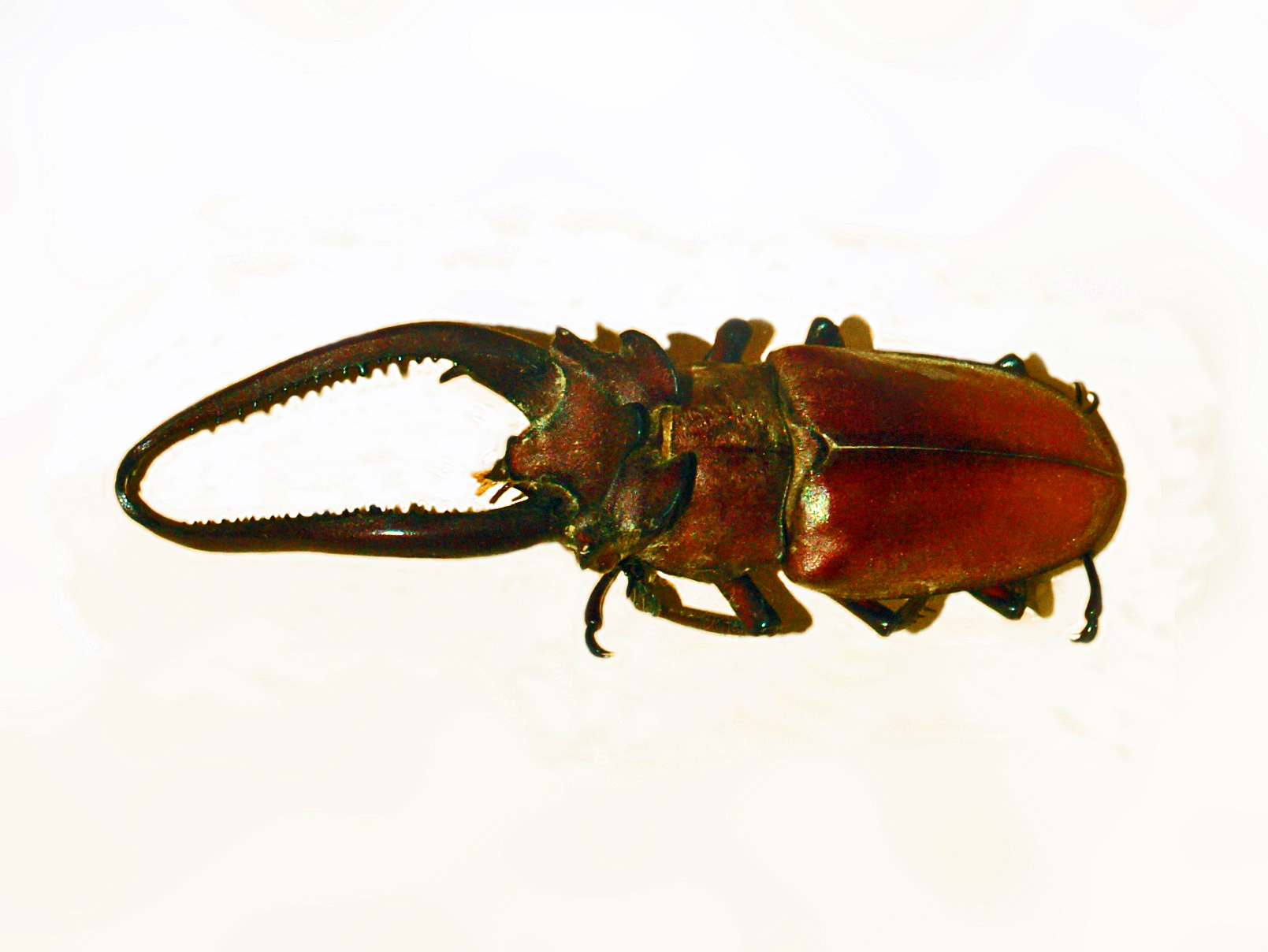 Male Lucanus laminifer from India